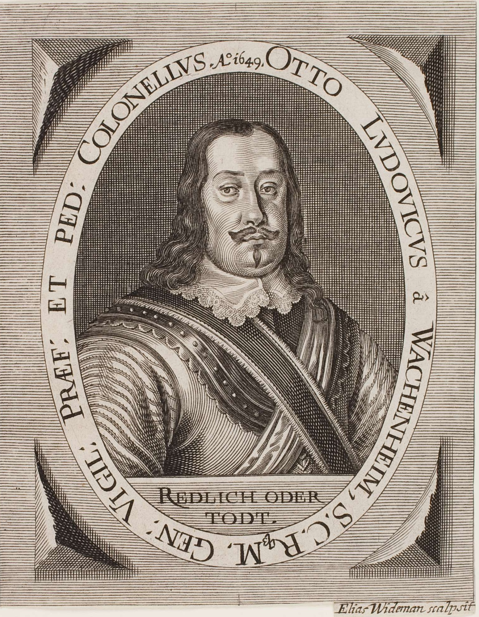 Otto Ludwig von Wachenheim (+ 1660), gestochen im Jahre 1649, kaiserlicher General